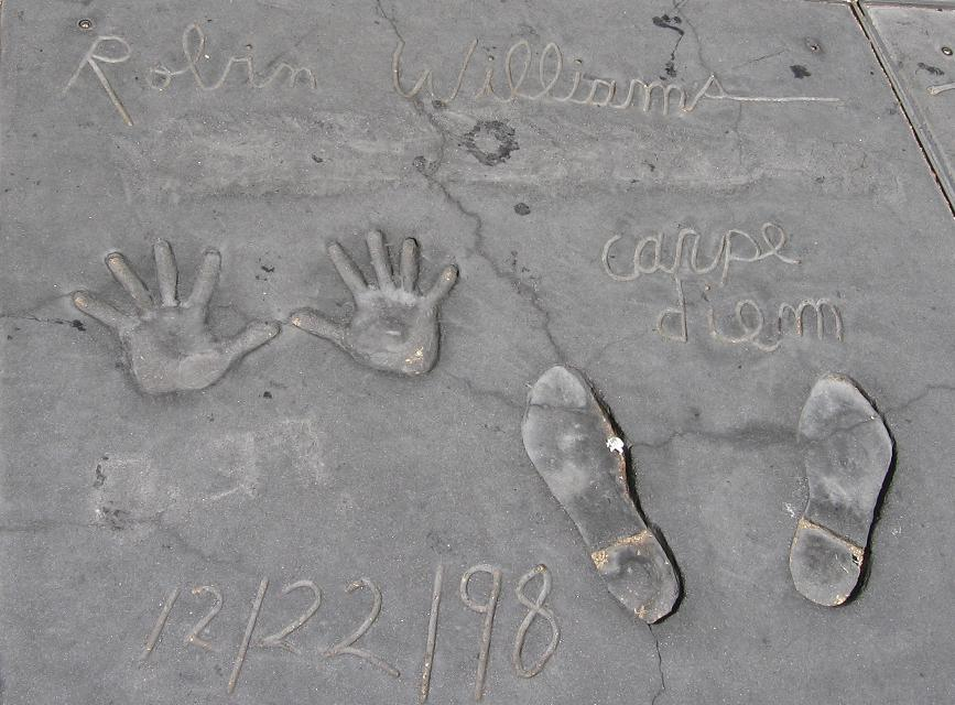 Empreintes de Robin Williams devant le Chinese Theater sur Hollywood Blv